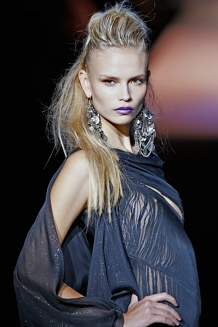 Natasha Poly, Russian model, at the Zac Posen Spring 2009 Collection show